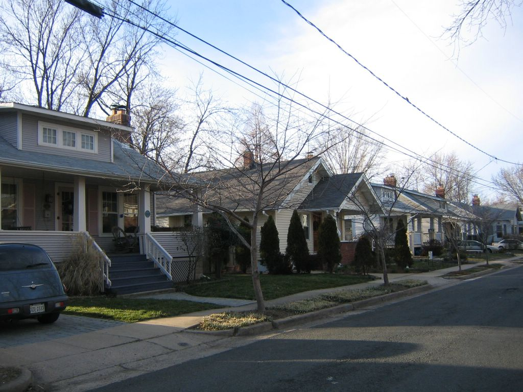 A row of bungalows in the Del Ray neighborhood of Alexandria, Virginia